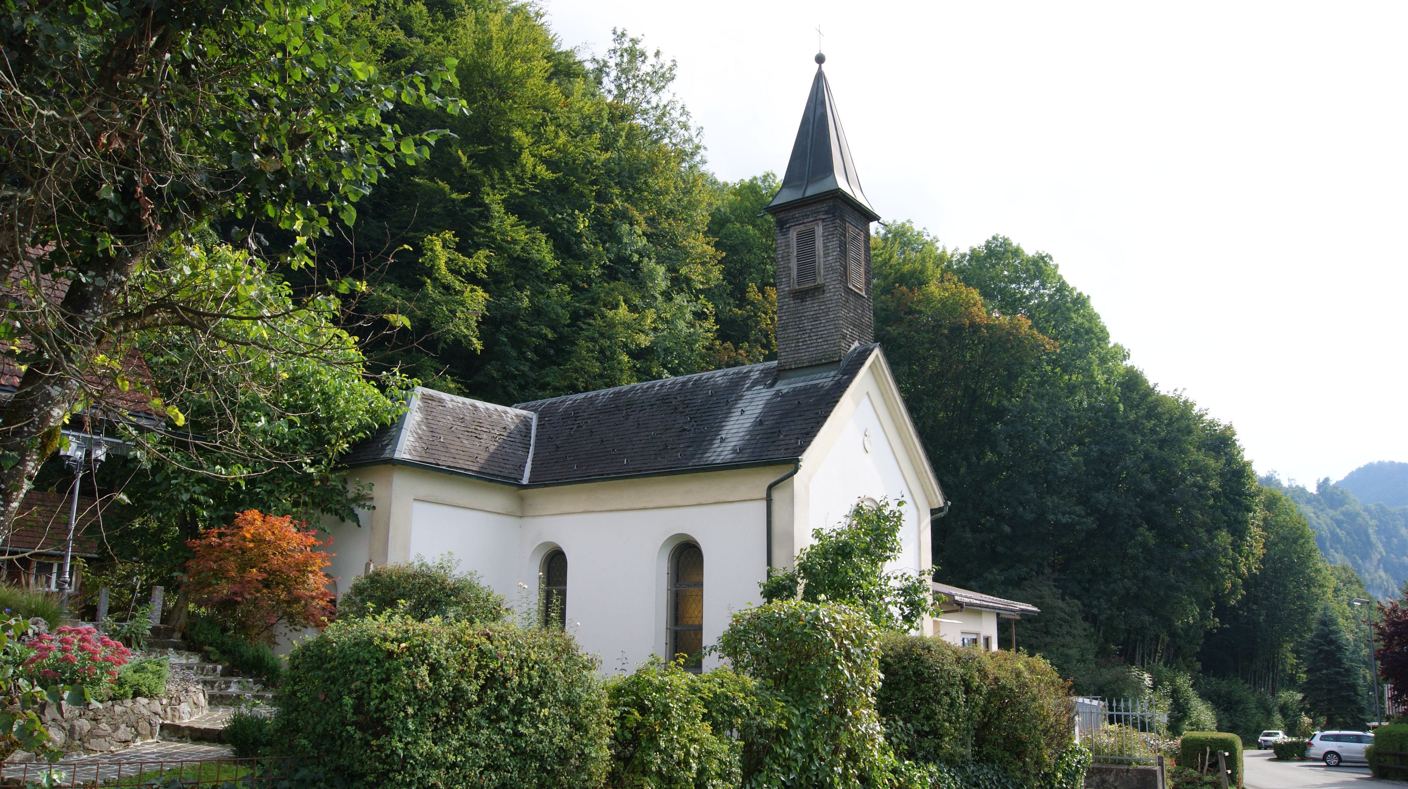 Chapel of St.. Joseph in the local district of "Unterklien", Hohenems, Vorarlberg, Austria. View from the north.